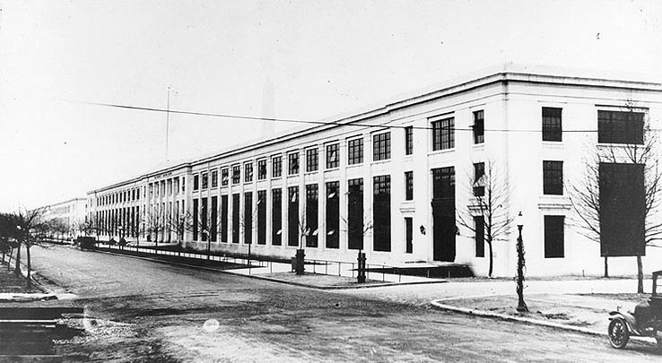 The Munitions Building, located on the National Mall in Washington, D.C. near the Lincoln Memorial, was a temporary structure built during World War I. The building remained in use for several decades, and the Secretary of War was headquartered in the Munitions Building from 1939 until the Pentagon opened in 1943.